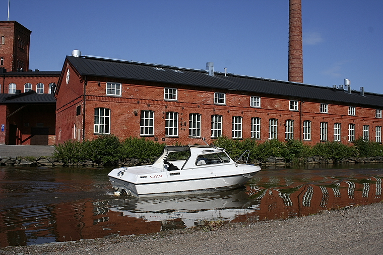 Enjoying the summer time in the centre of town by river Loimijoki